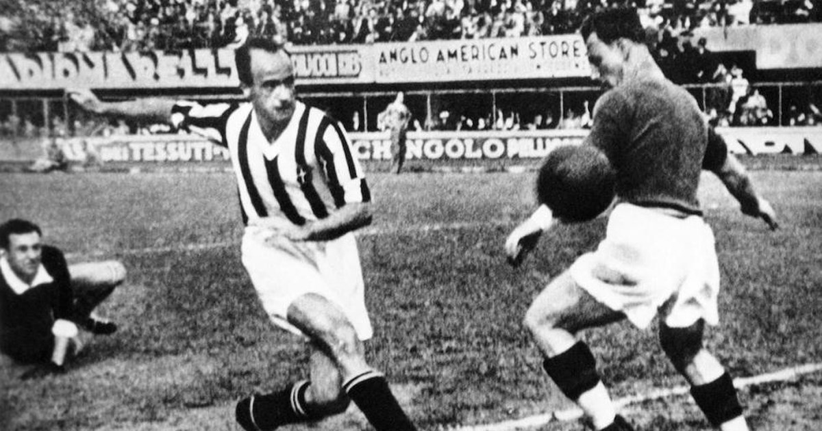 Florence (Italy), Giovanni Berta Stadium, June 2, 1935. A.C. Fiorentina — F.B.C. Juventus 0-1, Matchday 30 of the Italian Championship 1934–35 Serie A: Juventus's midfielder Giovanni Ferrari (centre) scores at 81' the winning-goal for his team.